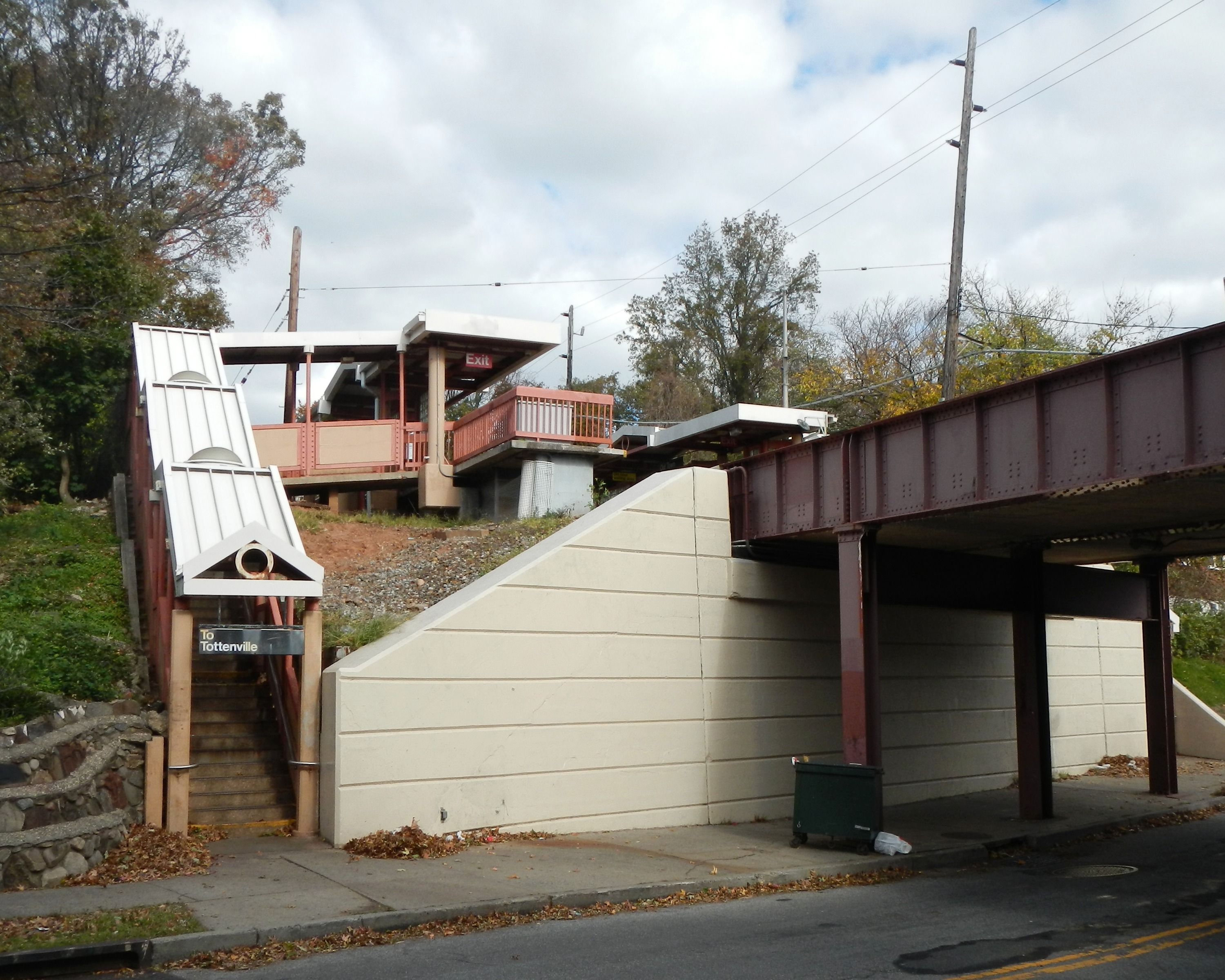 Looking northeast at Old Town Road stairs on a partly sunny midday.